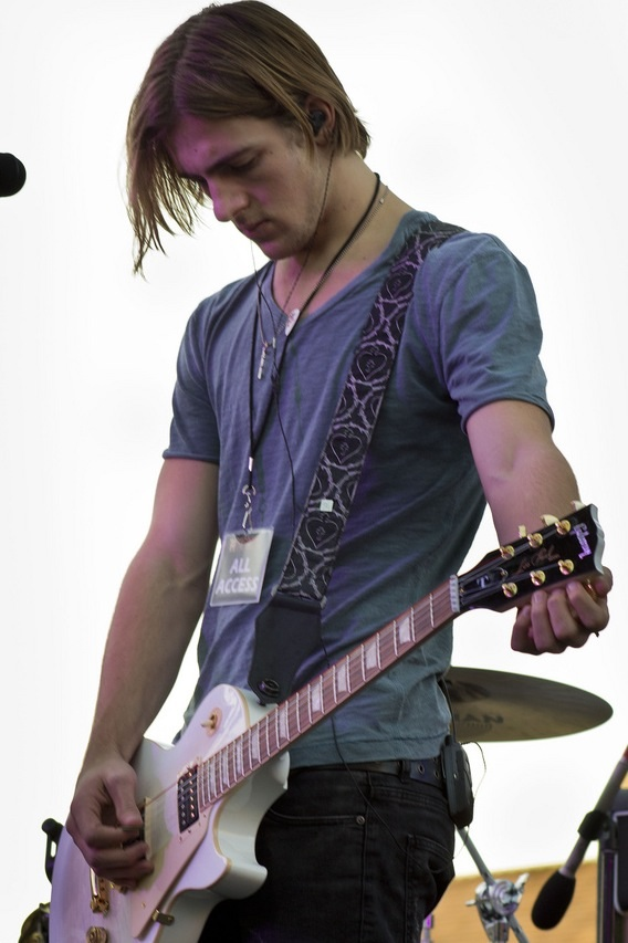 Rocky Lynch performing along with R5 at the Citadel's 12th Annual Christmas Tree Lighting, Los Angeles, CA on November 9th, 2013.